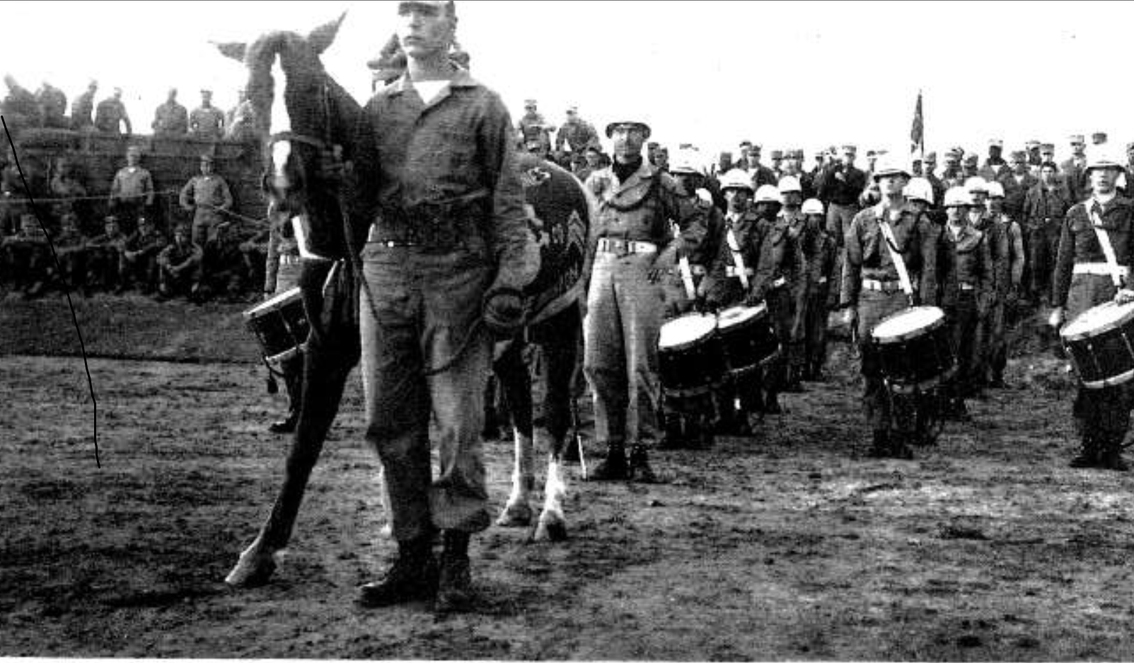 Sergeant Reckless was given a formal stateside rotation ceremony prior to her departure from Korea for America. PFC William Moore, her caretaker at the time but he was not in the platoon during the war, is holding her and is the one who accompanied her on the trip to America.